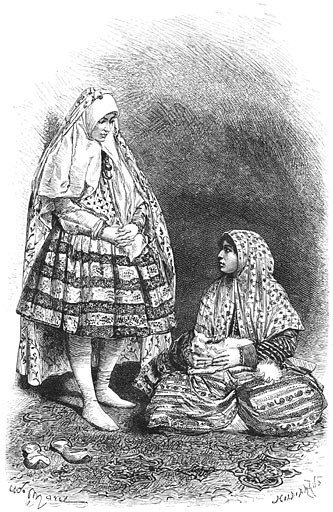 Two women from Shiraz as seen by Jane Dieulafoy (1851-1916) in 1881.